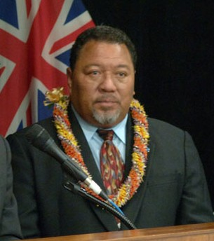 Former President of the Federated States of Micronesia Joseph J. Urusemal at the 2006 Conference on Business Opportunities in the Islands